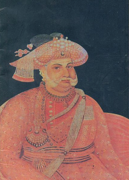 Raja Serfoji II, monograph by Babaji Rajah Bhonsle Chattrapathi